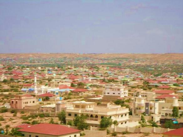 The horizon in the northwestern town of Borama, Awdal, Somalia.